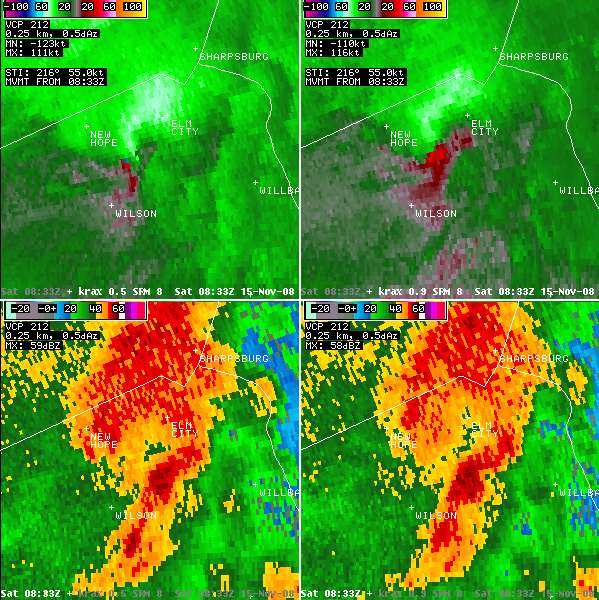 Radar images of the thunderstorm which spawned an EF3 tornado